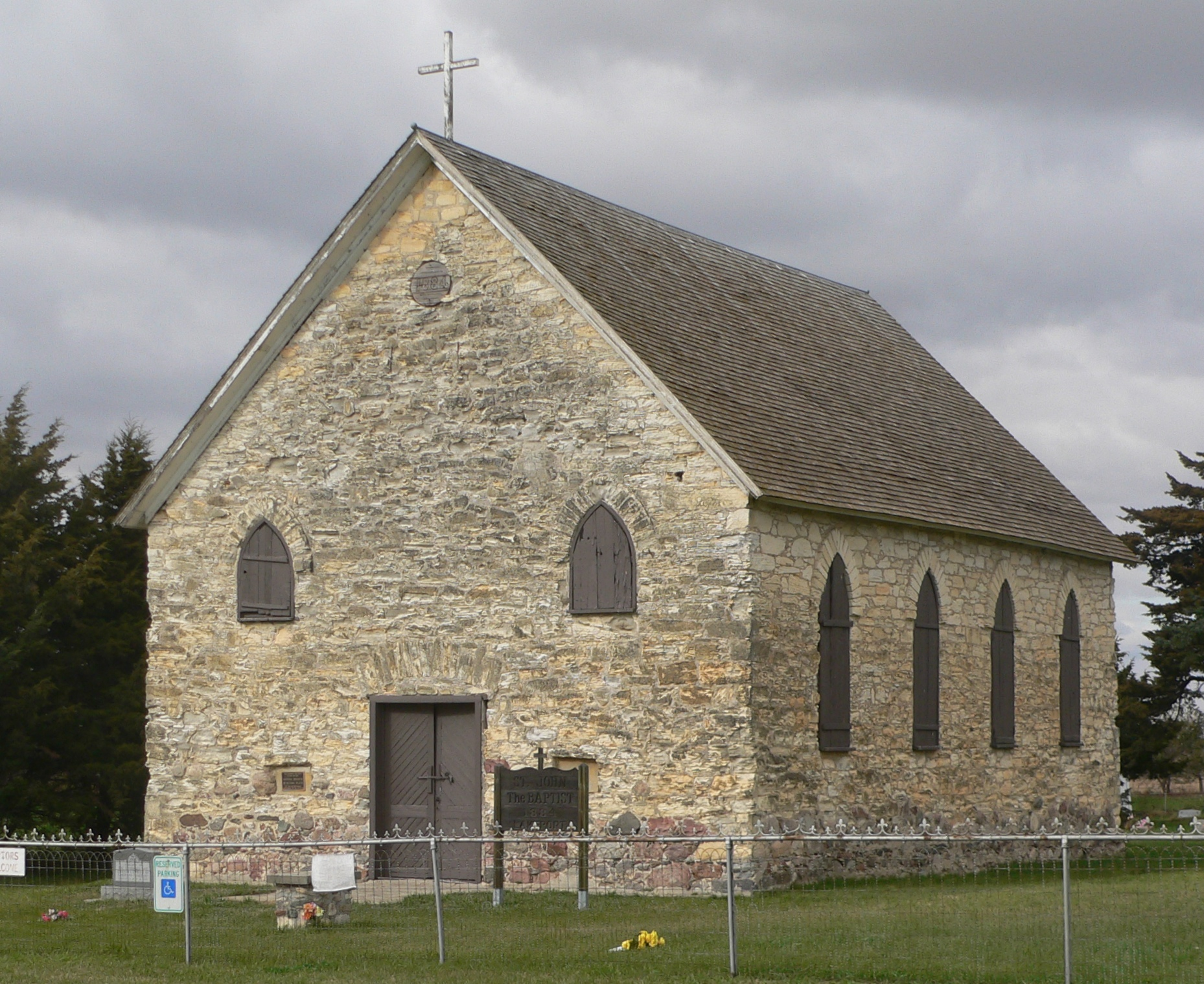 St. John the Baptist Church, located at 43064 Lake Port Road in rural Yankton County, South Dakota; seen from the southeast.